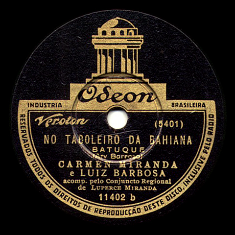 Odeon Records 78 label by Carmen Miranda and Luiz Barbosa, for Ary Barroso's song, "No Taboliero da Bahiana" Carmen Miranda and Luiz BarbosaOdeon 11402BRecorded September 29, 1936; released November 1936With Conjunto Regional de Pixinguinha and Luperce Miranda